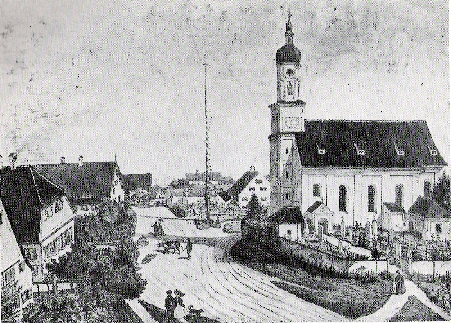 Lithography showing Old Church St. Margaret at Sendling